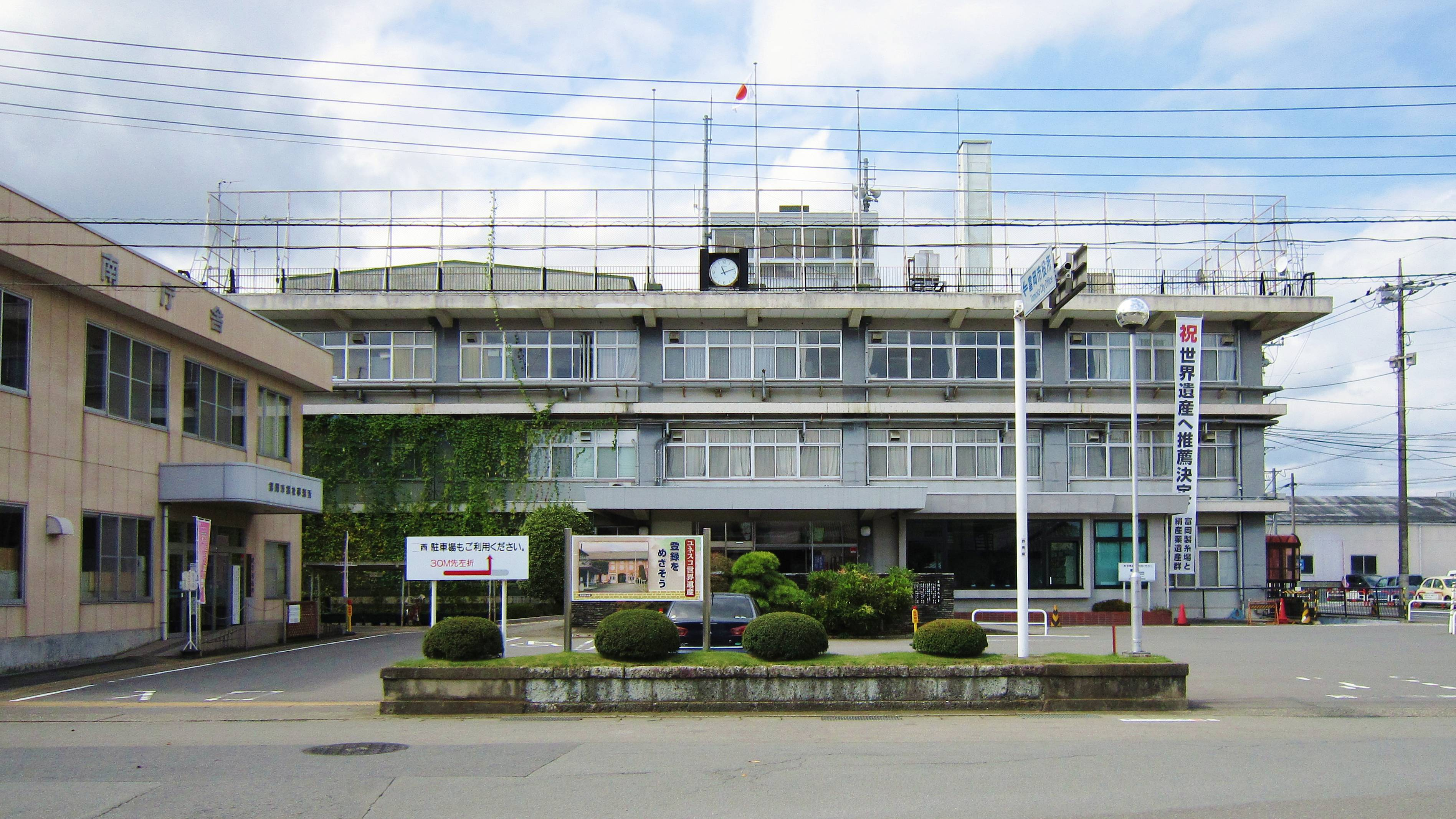 Tomioka city office.